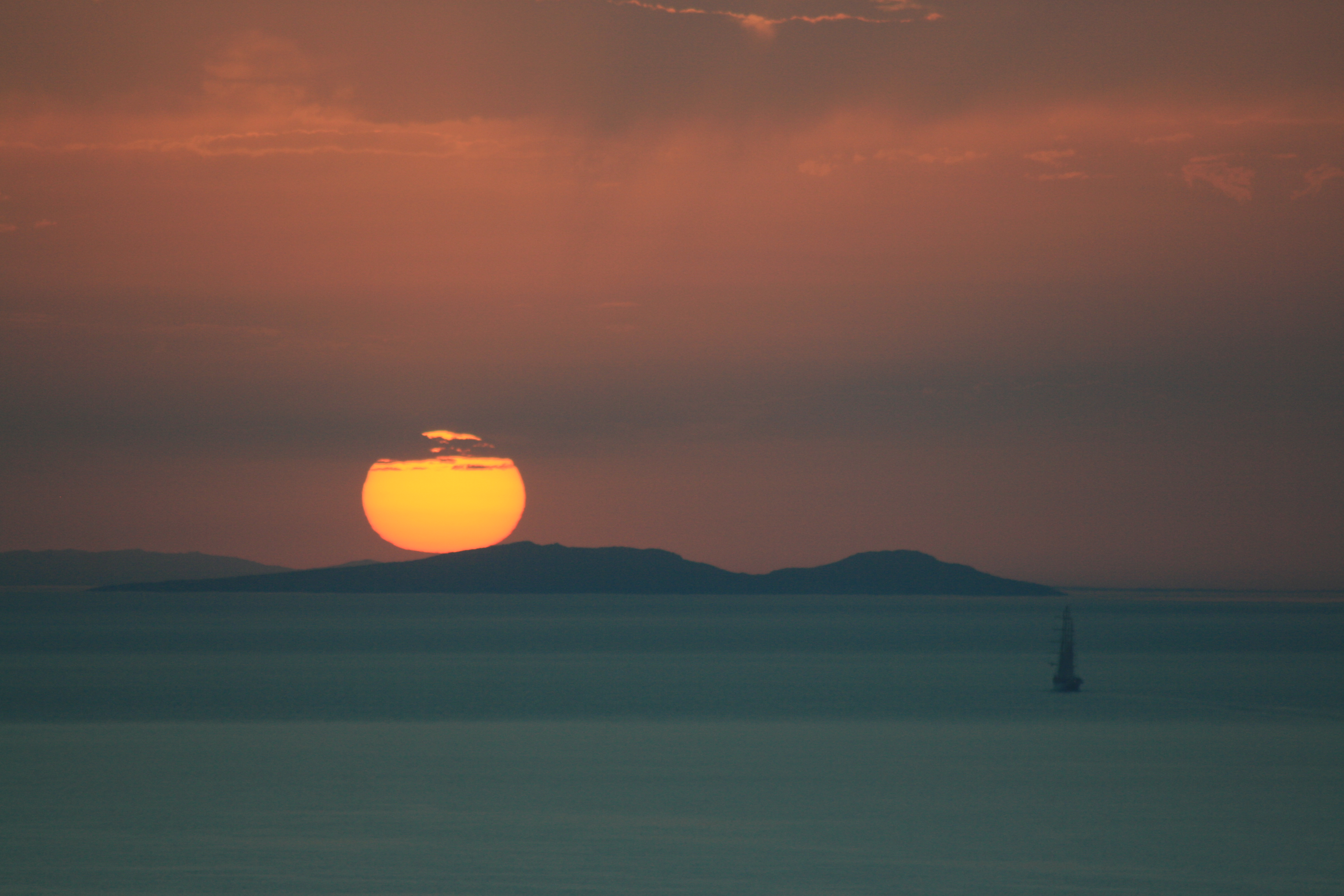 Oia Sunset. Oia is a village of Santorini, Greece.